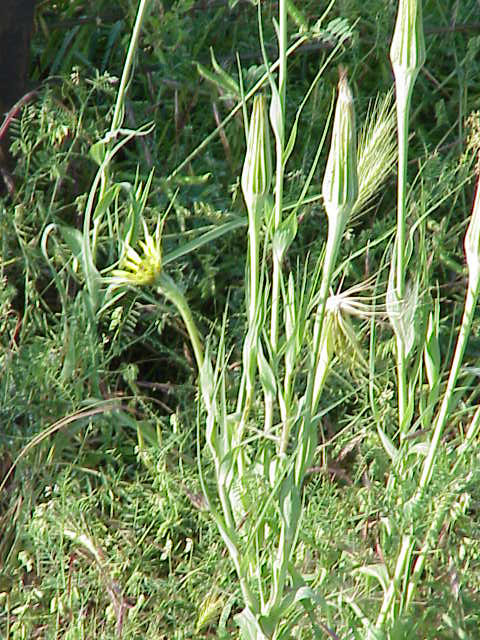 Species: Tragopogon dubius Family: Asteraceae Image No. 6